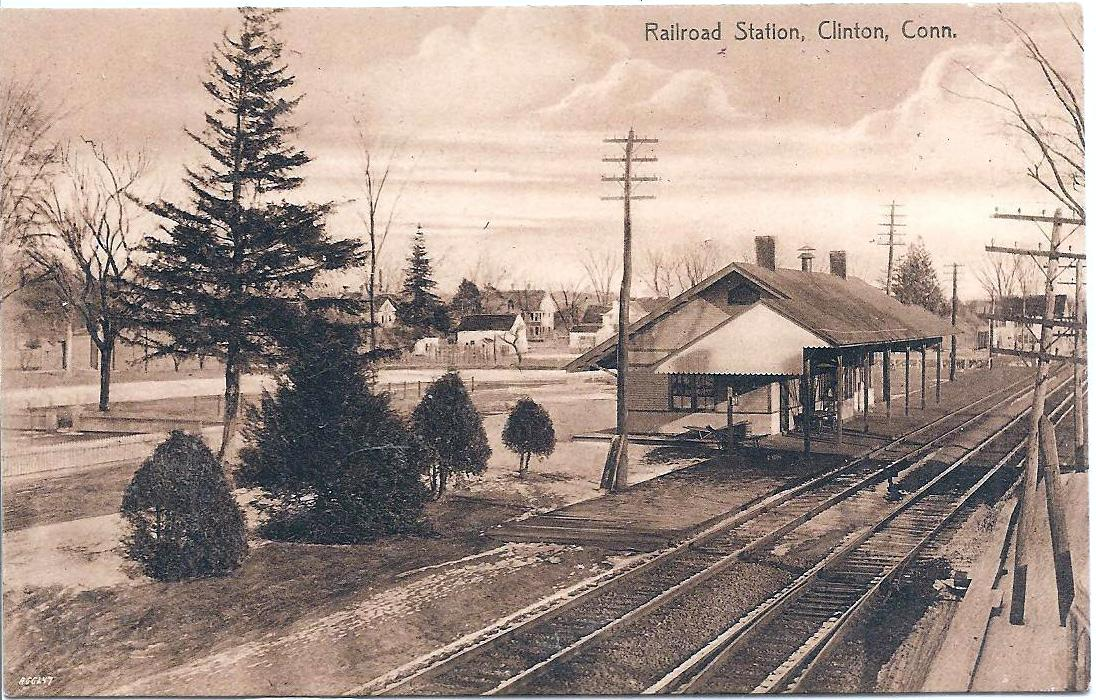 Early divided back postcard of Clinton station